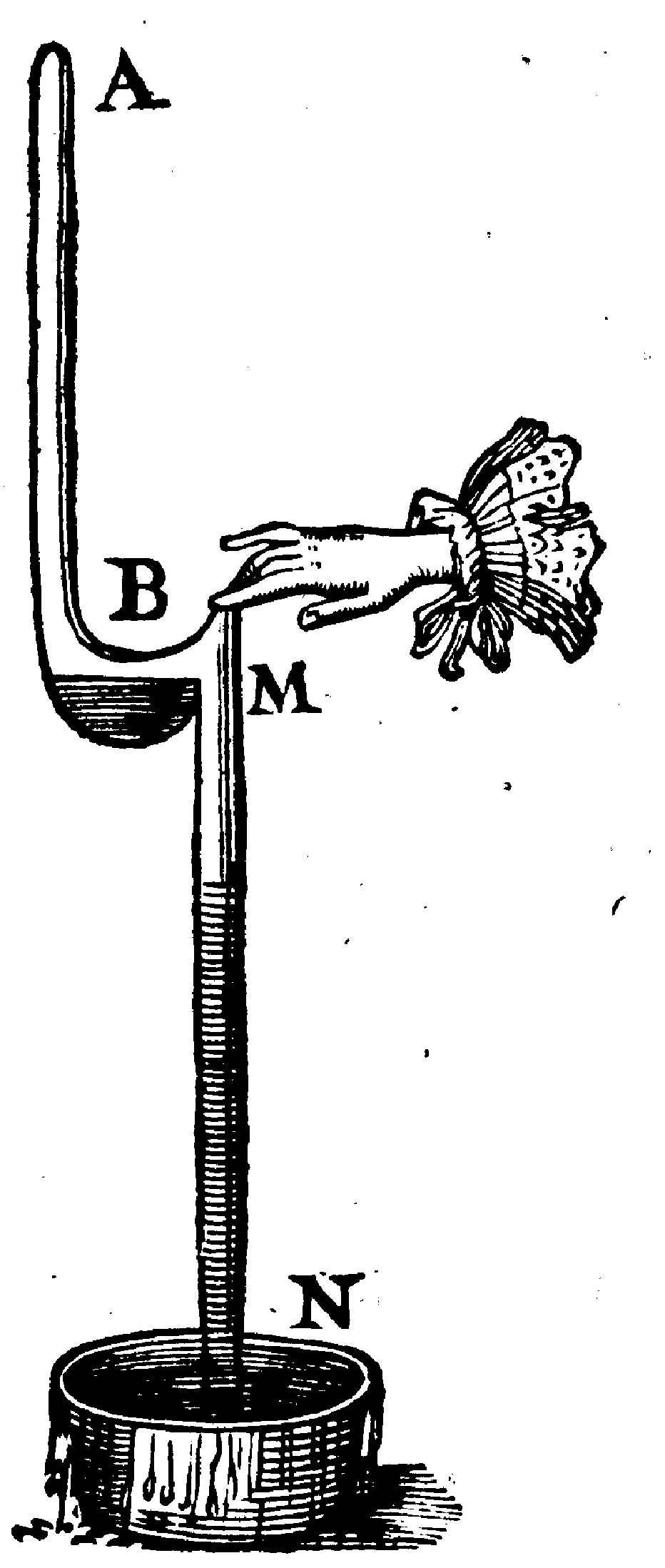 Blaise Pascal, Illustration of the Experiment La vide dans la vide in Traitez de l´equilibre des liqueurs et de la pesanteur de la masse de l´air, Paris 1663